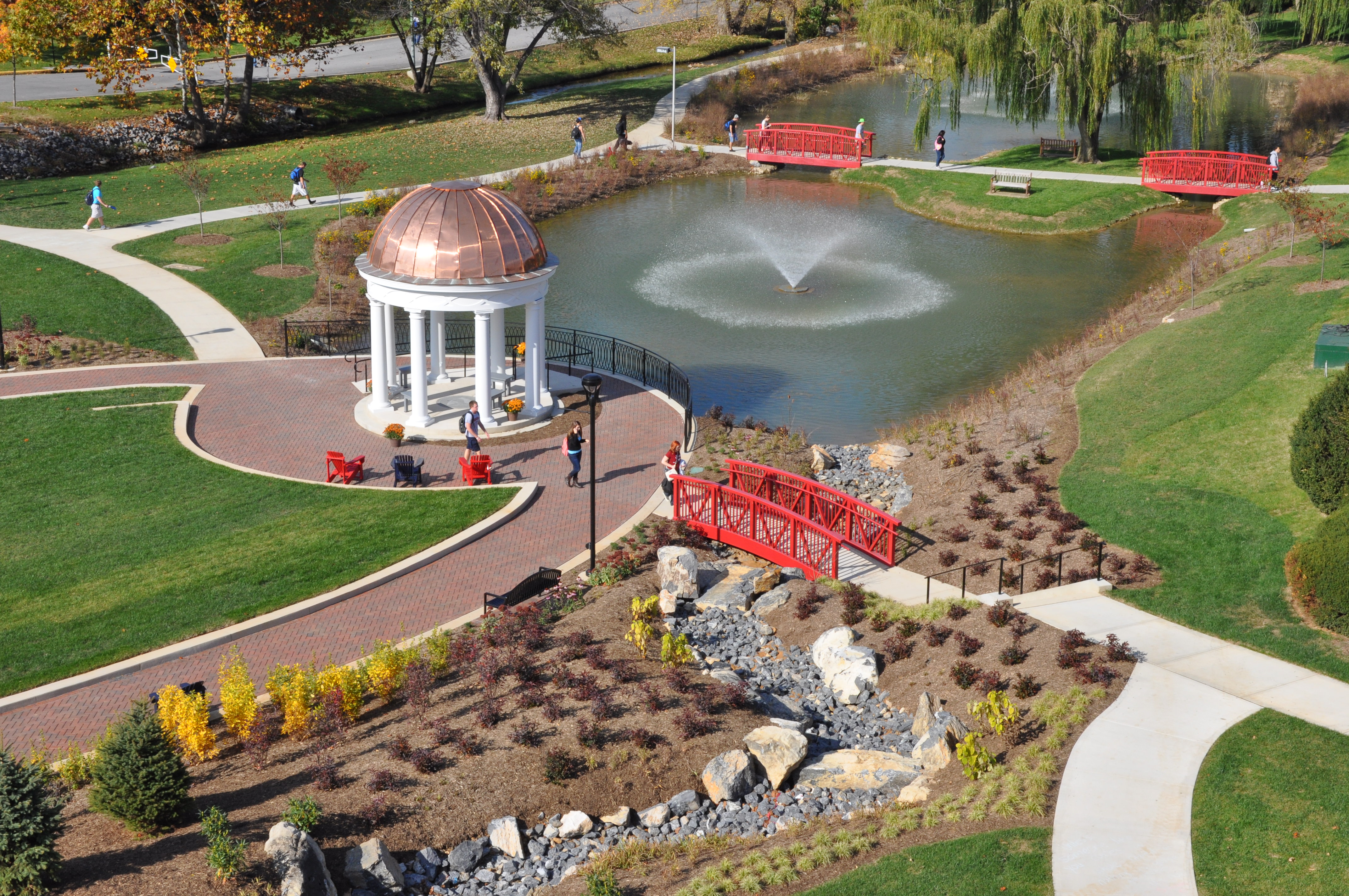 A part of Shenandoah University's campus called Sarah's Glen where students can relax and study.